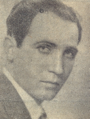 Bulgarian actor Lyuben Saev in newspaper "La Parole Bulgare", 21 December 1940, No. 668, Page 3